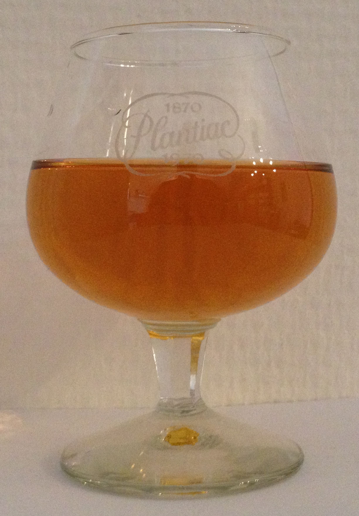 A commemorative Plantiac 1870-1970 glass filled with Dutch Brandy